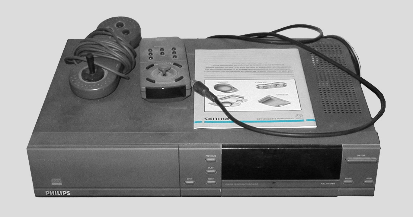 A Philips CD-i 220 console with a wired controller, a wireless controller, and an instruction manual. Taken May 2, en:2004, by Gordon P. Hemsley. Modified on March 15, en:2006, by Dwiki.